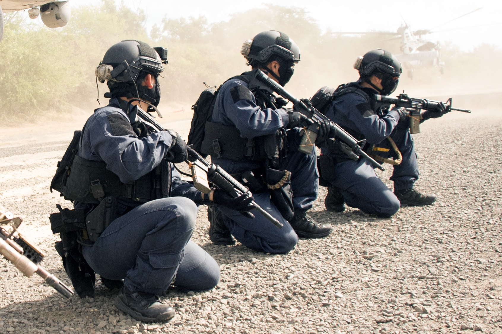 180705-N-BQ308-0132 BELLOWS AIR FORCE STATION, Hawaii (July 5, 2018) A Soldier from the U.S. Army's 1st Battalion, 1st Special Forces Group (ABN) and multinational Special Operations Forces (SOF) disembarks from an MH-60S helicopter to take up fighting positions during with multinational partners during the Rim of the Pacific (RIMPAC) exercise, July 5. Twenty-five nations, 46 ships, five submarines, about 200 aircraft and 25,000 personnel are participating in RIMPAC from June 27 to Aug. 2 in and around the Hawaiian Islands and Southern California. The world’s largest international maritime exercise, RIMPAC provides a unique training opportunity while fostering and sustaining cooperative relationships among participants critical to ensuring the safety of sea lanes and security of the world’s oceans. RIMPAC 2018 is the 26th exercise in the series that began in 1971. (U.S. Navy photo by Chief Mass Communication Specialist William Tonacchio)